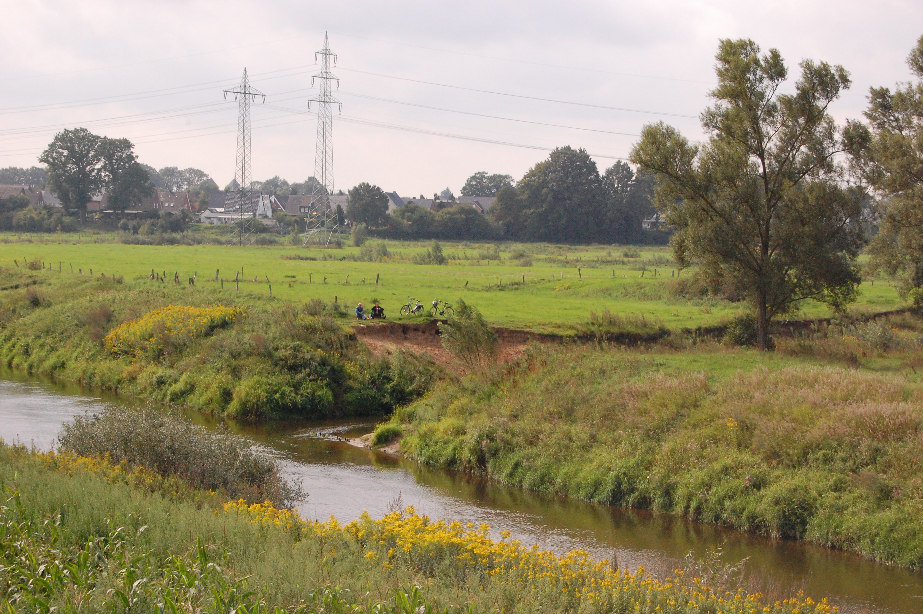 Emsdettener Muehlenbach